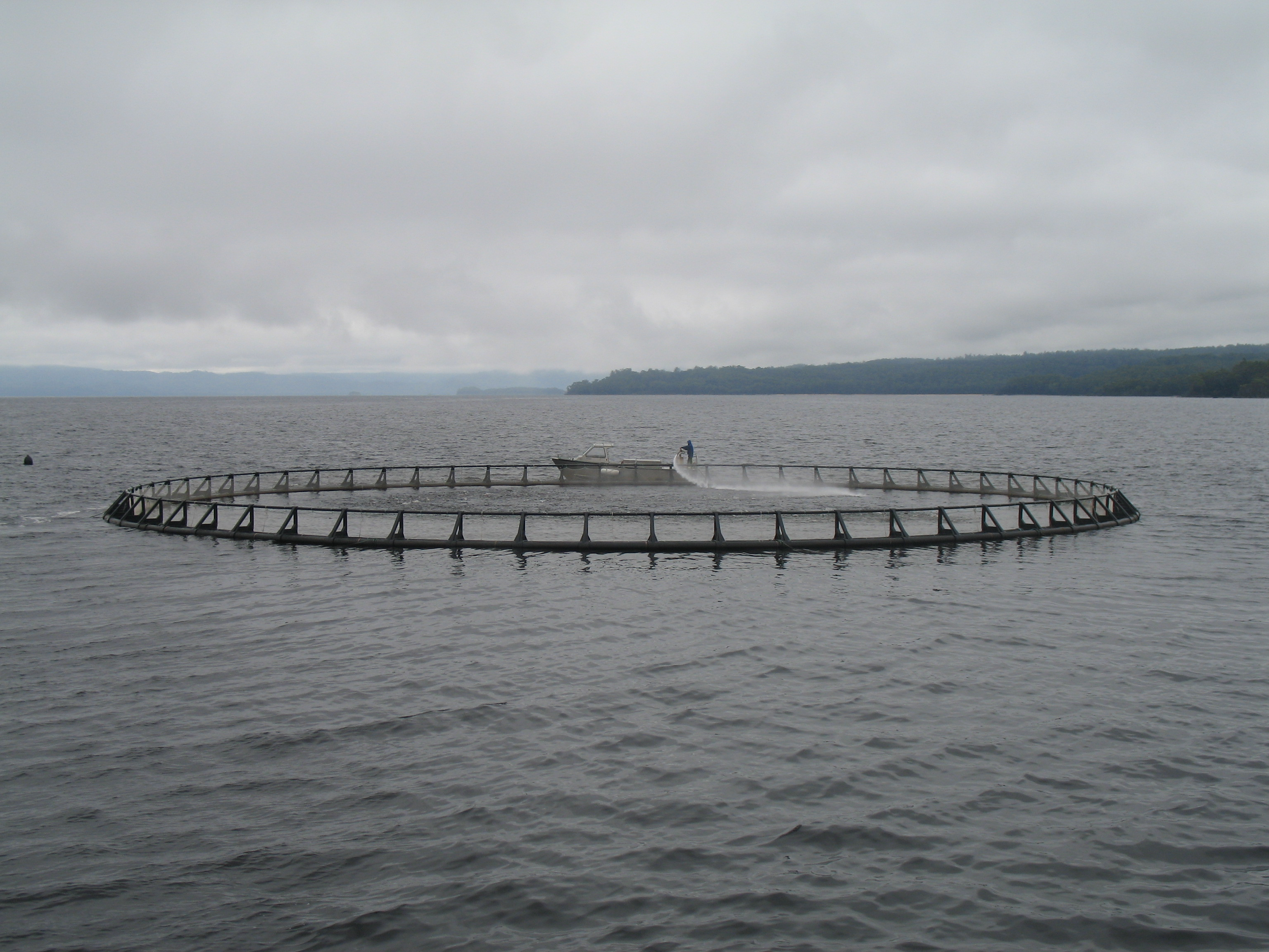 Fishing in Macquarie Harbour (Tasmania, Australia).